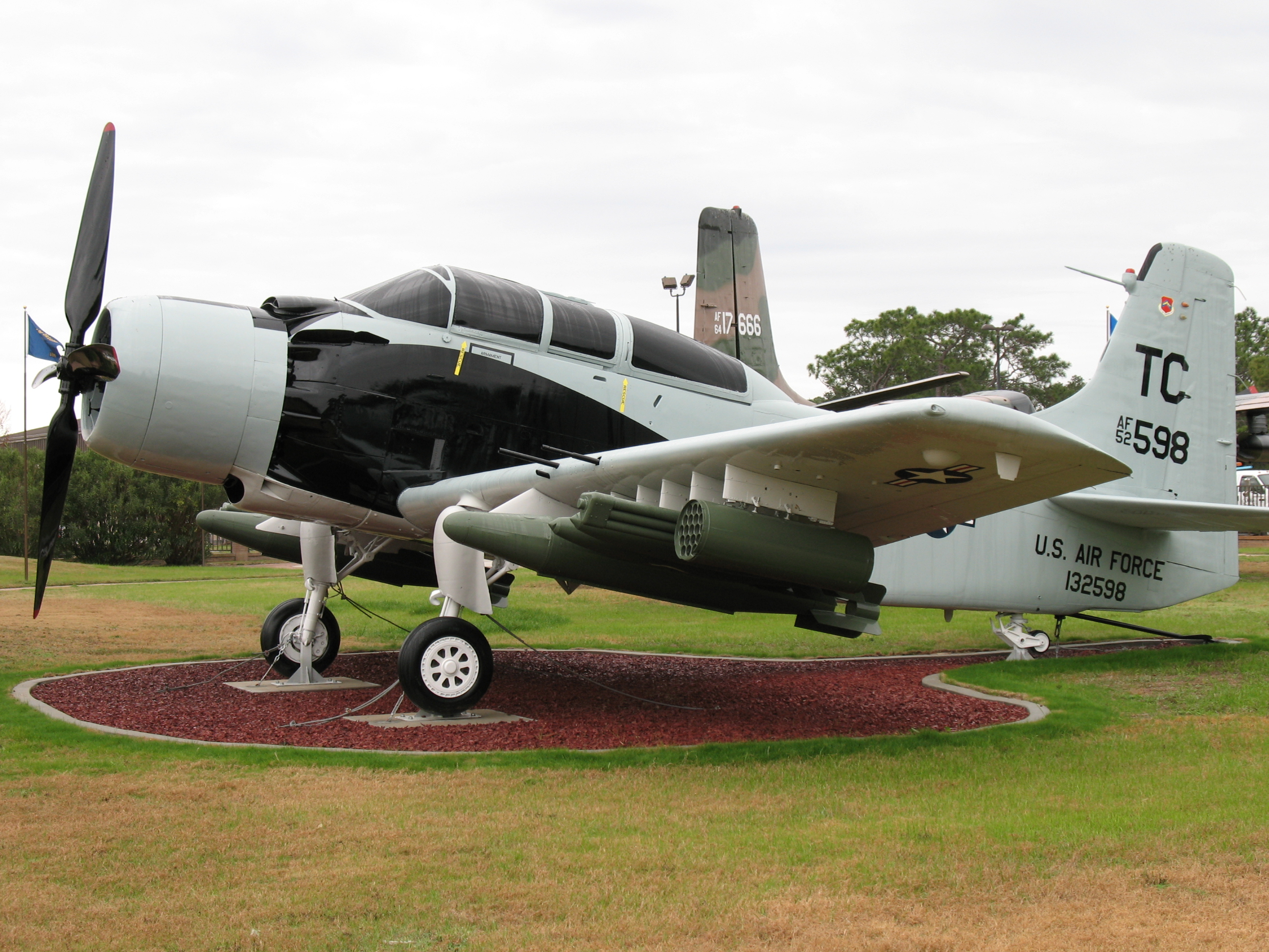 A former U.S. Air Force Douglas A-1G Skyraider (s/n 52-132598) on display at the Memorial Air Park, Hurlburt Field, Florida (USA), in 2008. This aircraft had been delivered as a U.S. Navy AD-5N night attack plane (BuNo 132598) which was redesignated A-1G in 1962. The aircraft is painted in the 1964-1966 scheme used by the USAF in Vietnam. However, it wears the tail code of the 1st Special Operations Squadron ("TC"), which was applied only later on camouflaged Skyraiders. The tail code is also too small.